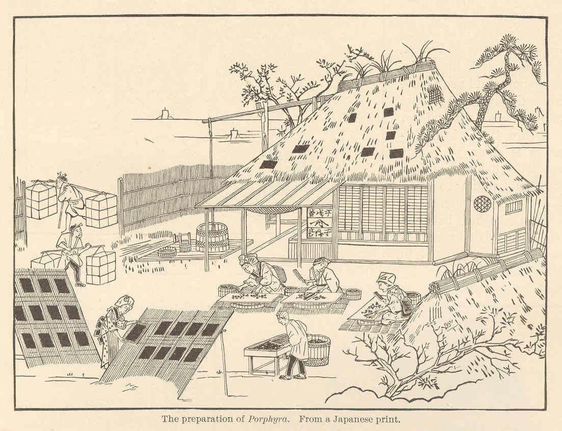 Preparation of Porphyra. From a Japanese Print Subject: Marine algae industry Tag: Aquatic Botany